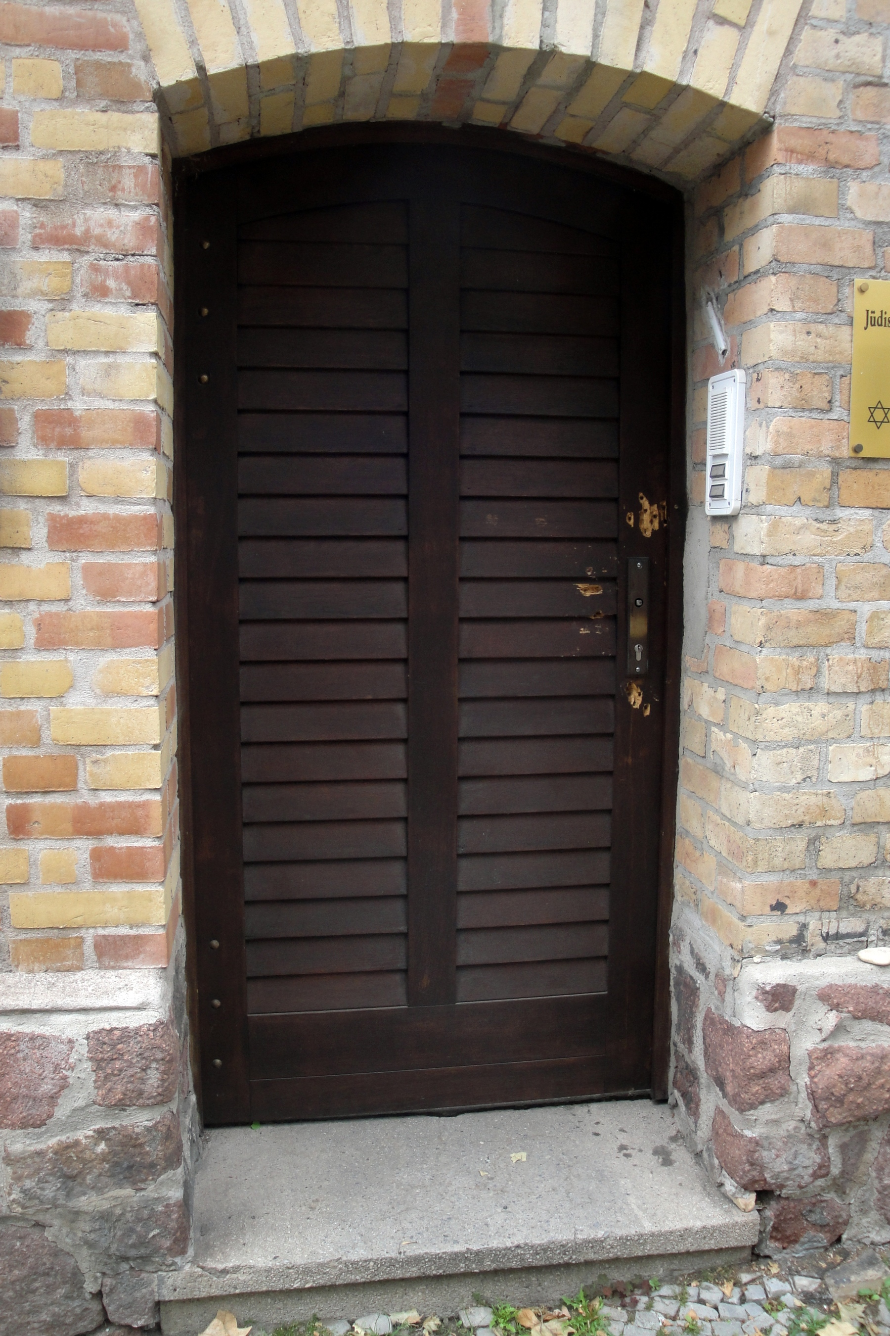 Bullet holes in the entrance door of the synagogue in Halle (Saale), Germany